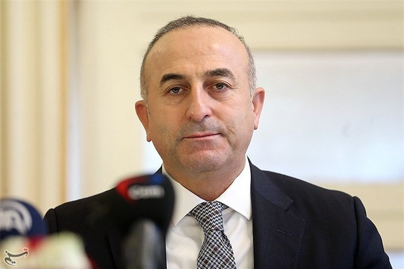 Minister of Foreign Affairs of Turkey Mevlüt Çavuşoğlu